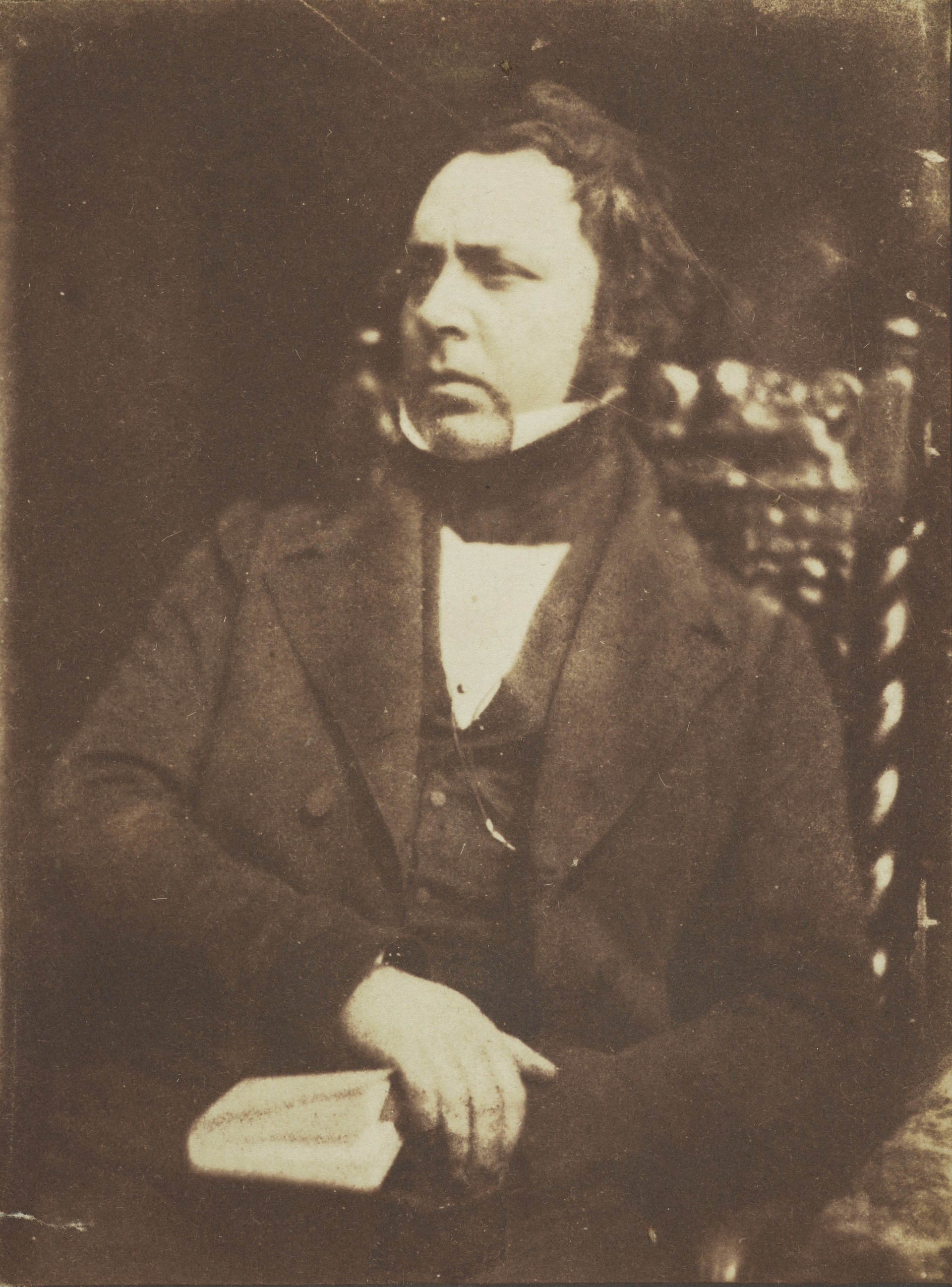 Professor James Bannerman, 1807 - 1868. Professor of Apologetics and Pastoral Theology, New College, Edinburgh